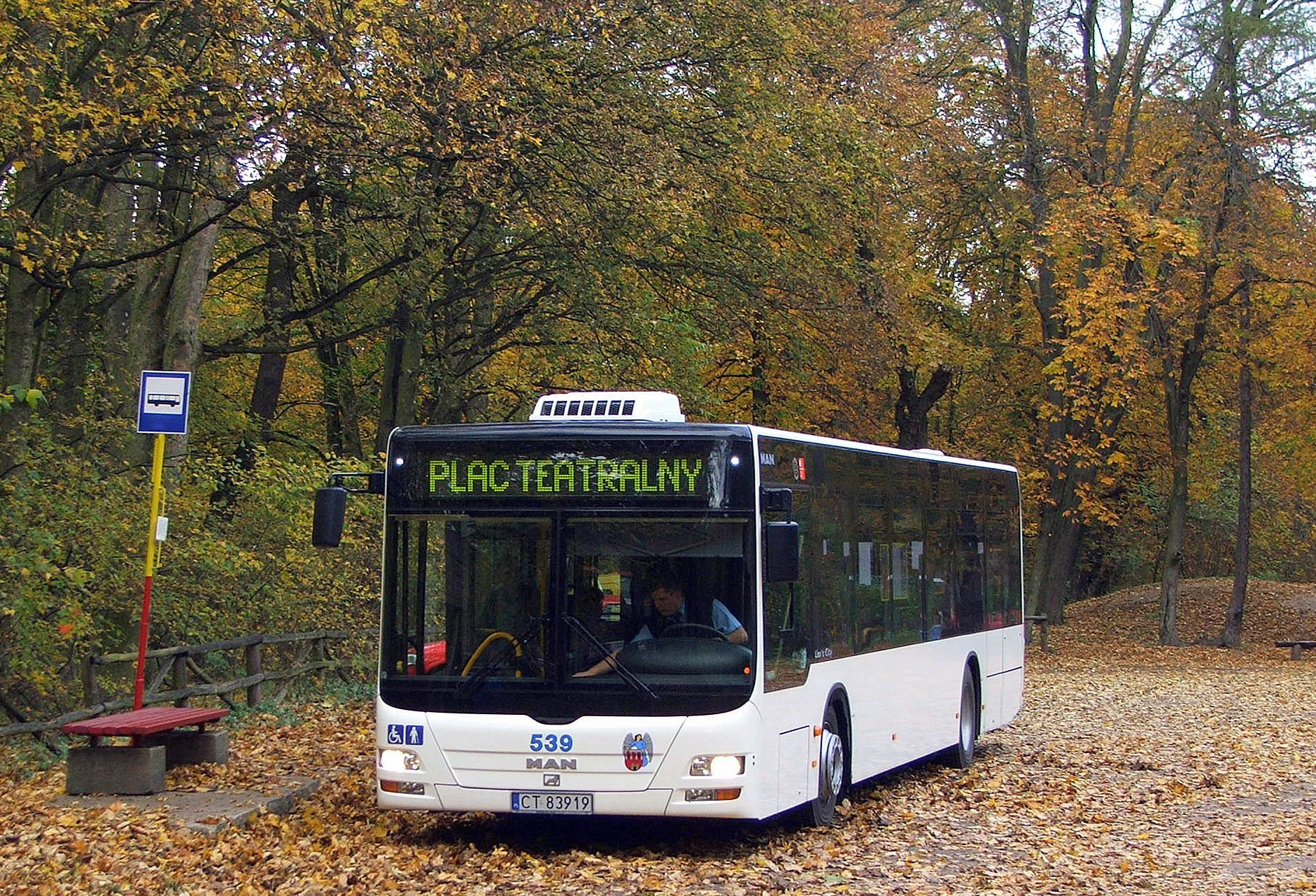 MAN NL283 Lion's City bus (#539) in Toruń, Poland. Year built 2006, MZK Toruń operator. Made by MAN STAR Trucks & Buses in Sady, Poland.